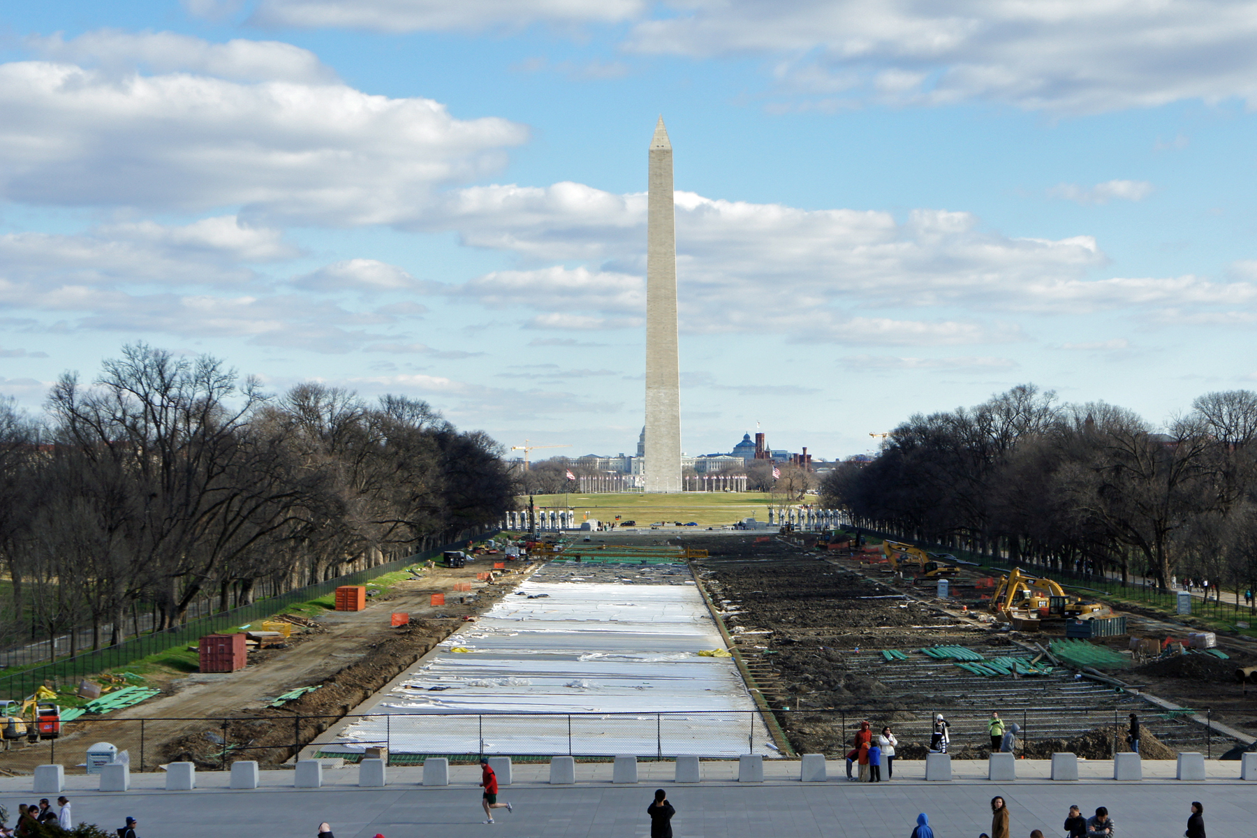 Rehabilitation works at the Reflecting Pool, National Mall, Washington, D.C.